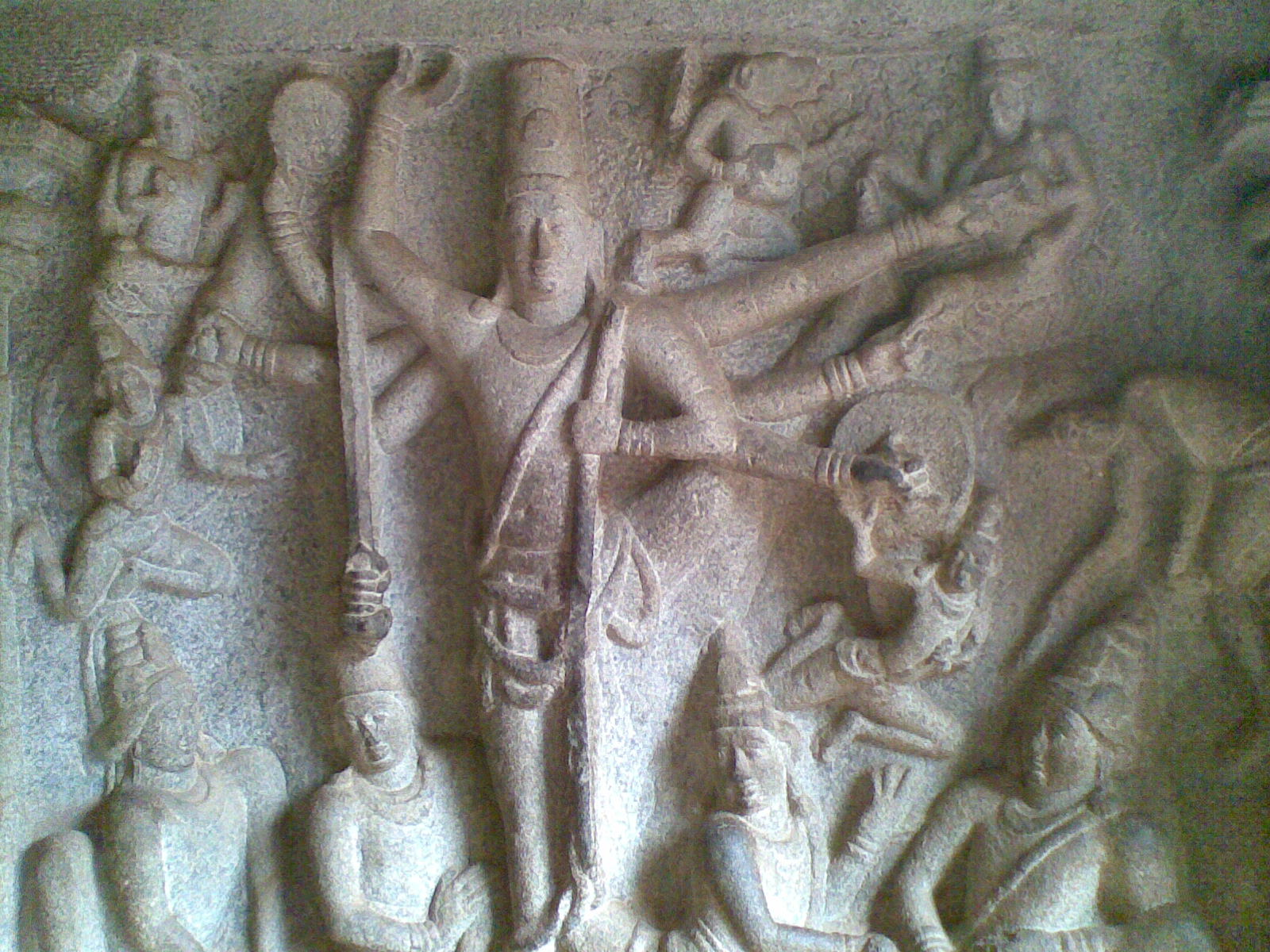 Rock Cut Varaha Temple Containing Varaha And Vamana Incarnation Of Vishnu